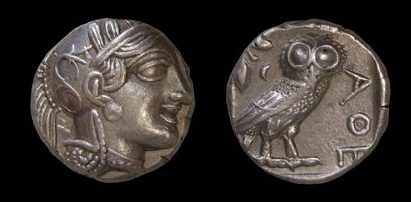 Silver Tetradrachm of Athens 454-415 BC